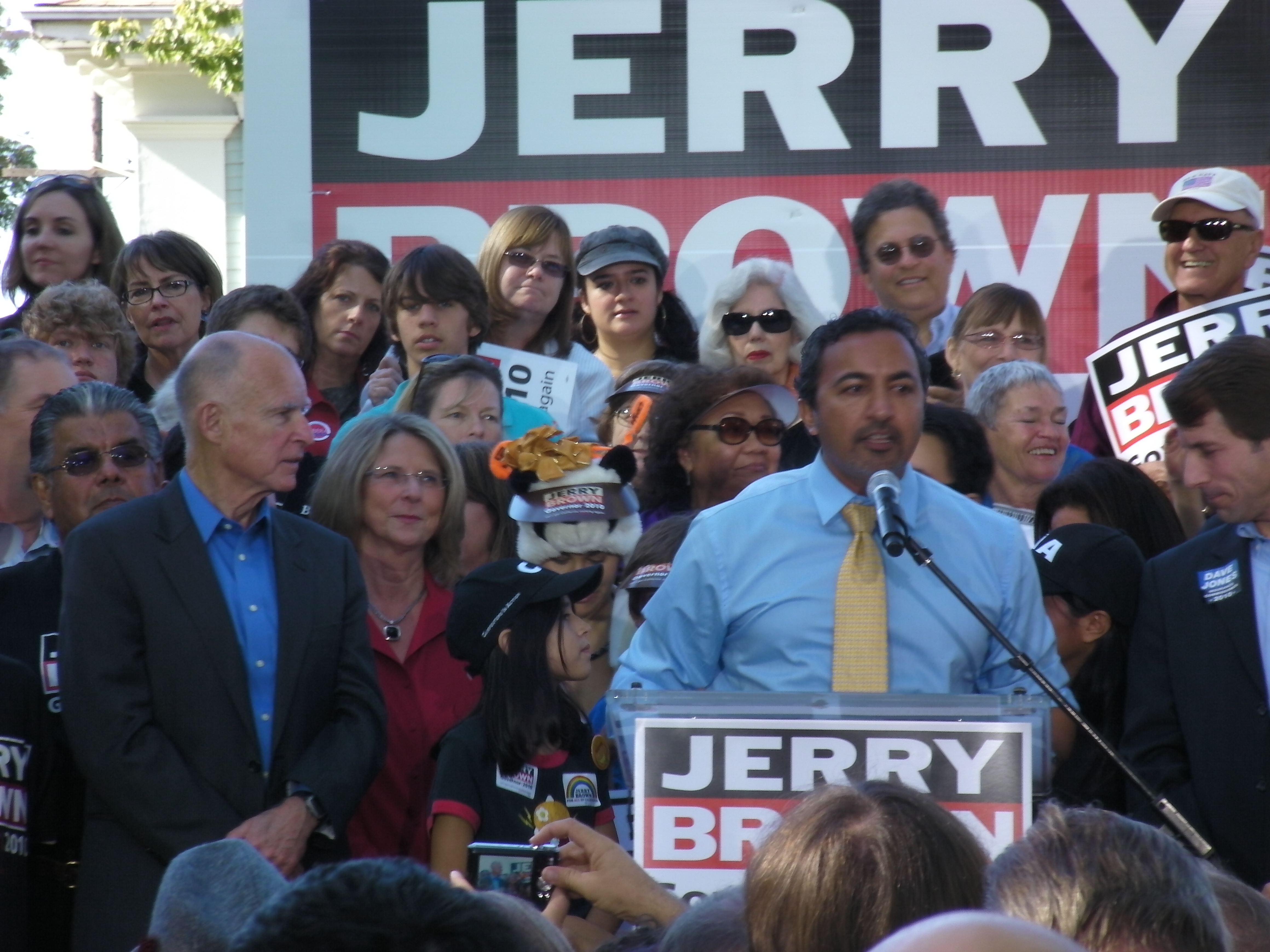 California State Governor Jerry Brown with Dr. Ami Bera at a 2010 rally.